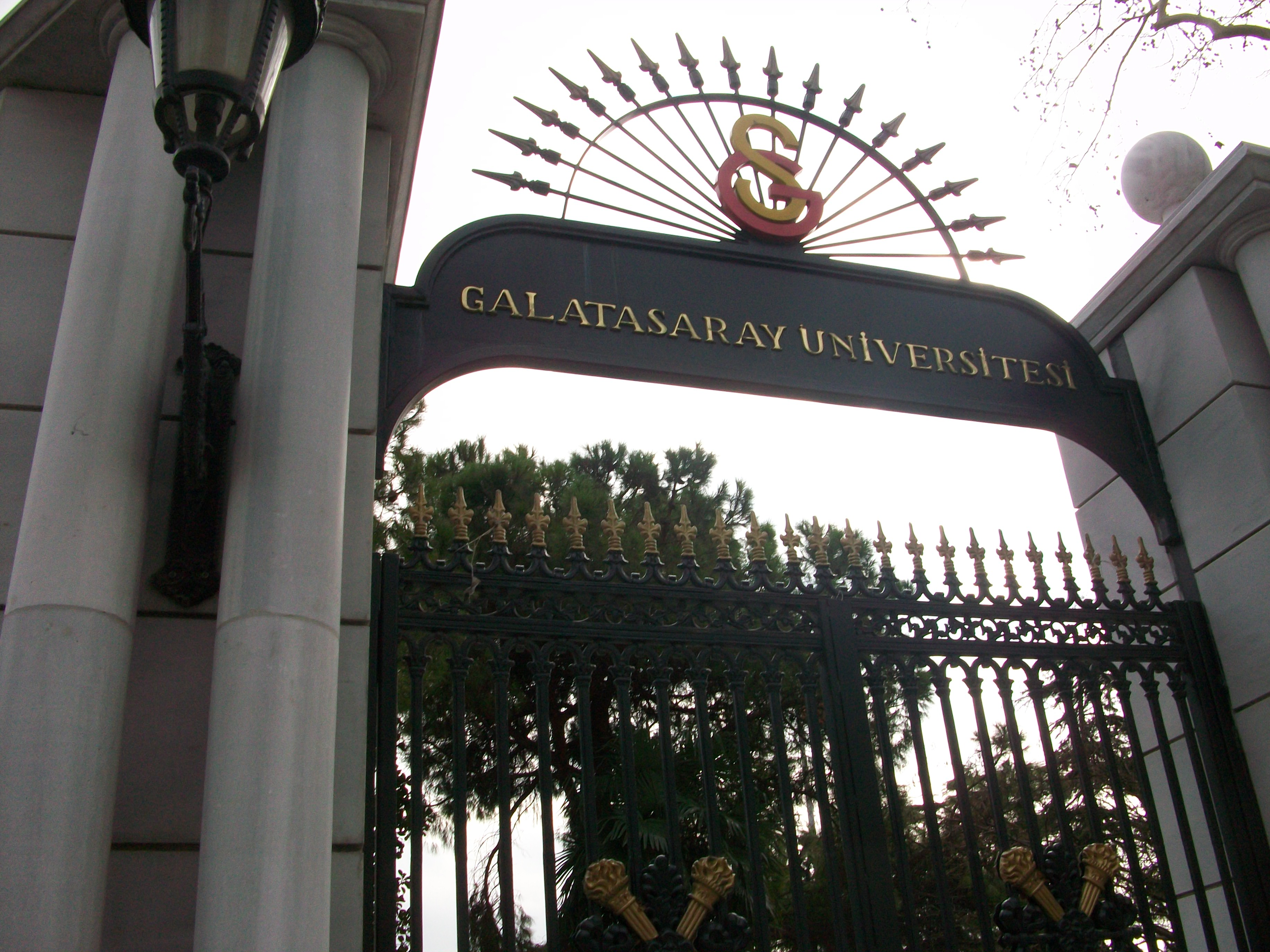 The entrance of Galatasaray University .